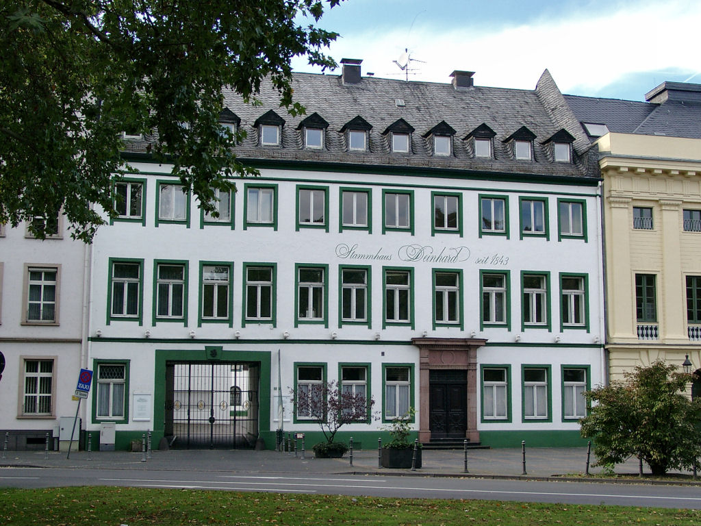 Deinhard Winery in Koblenz